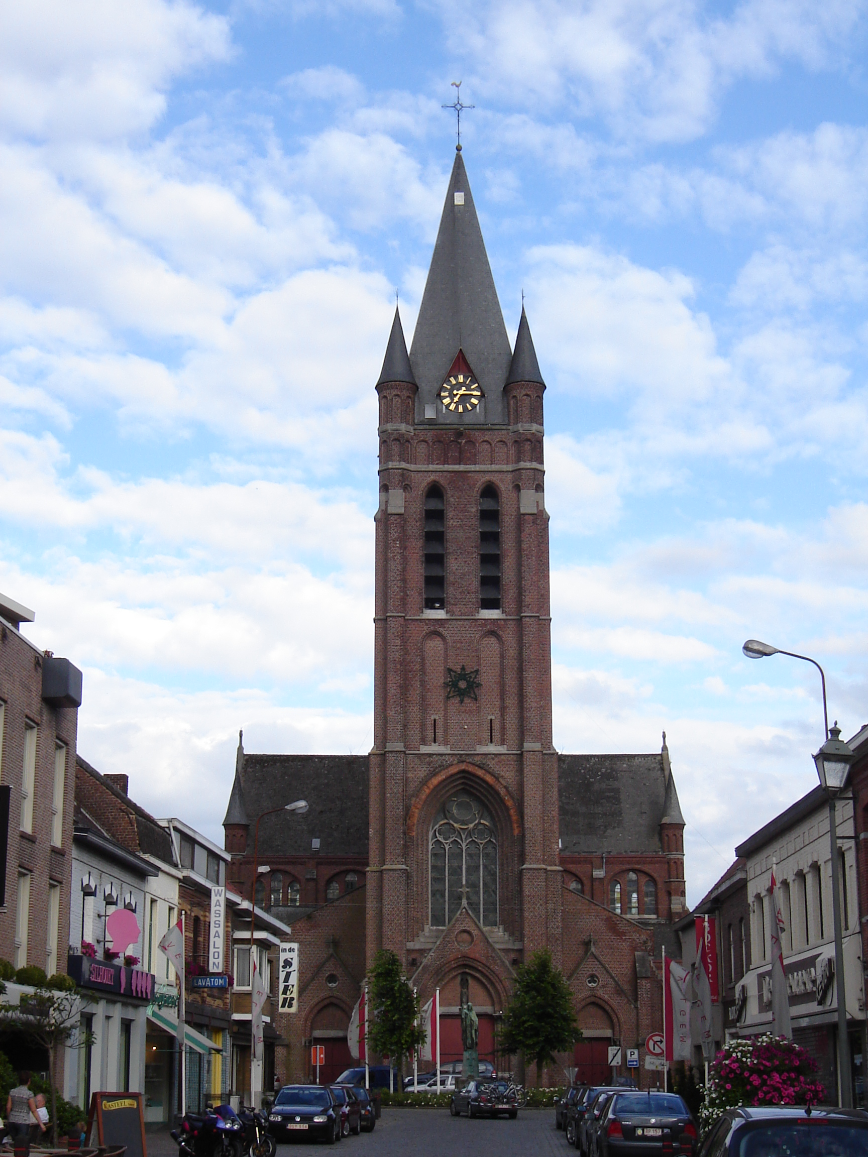 Church of Saint Martin in Avelgem, West Flanders, Belgium.